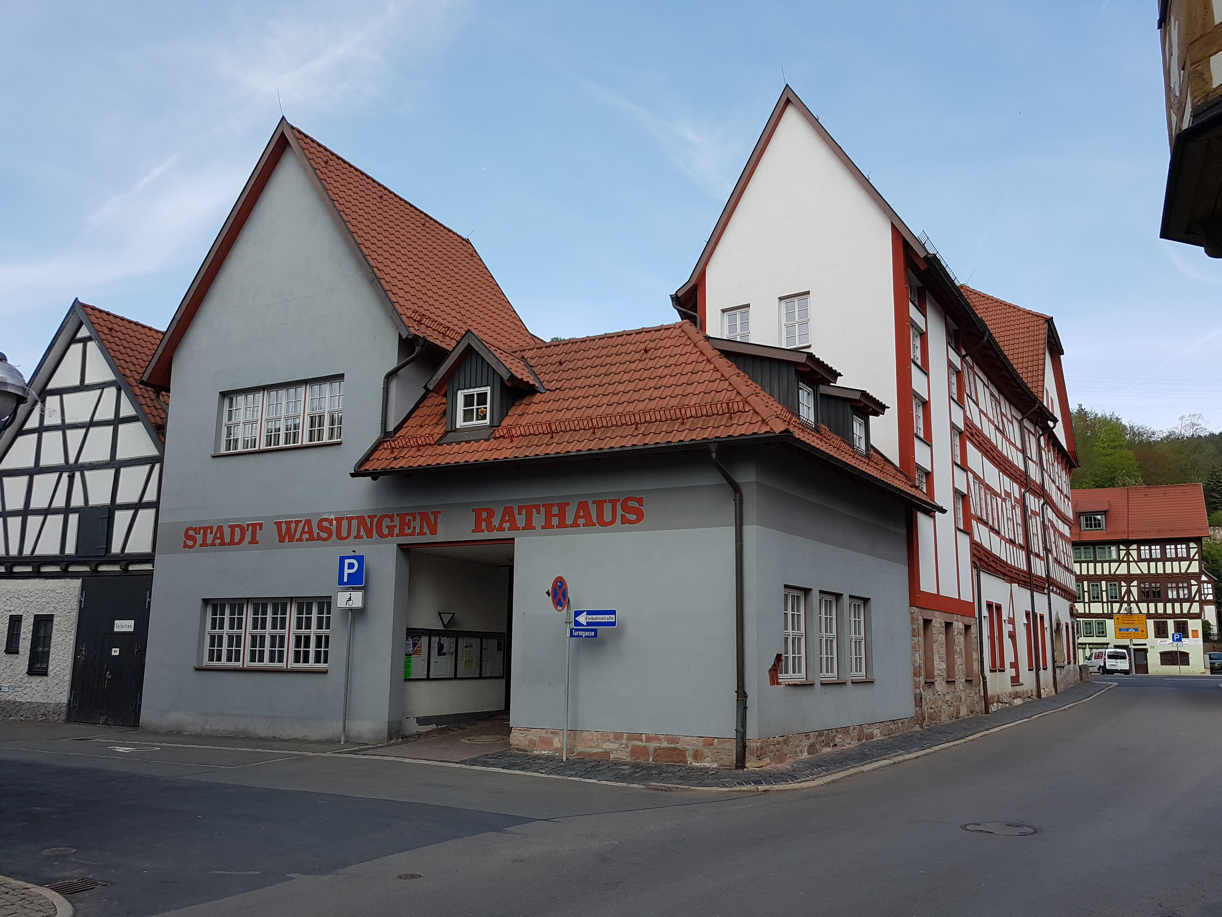 Building back of the City Hall in Wasungen